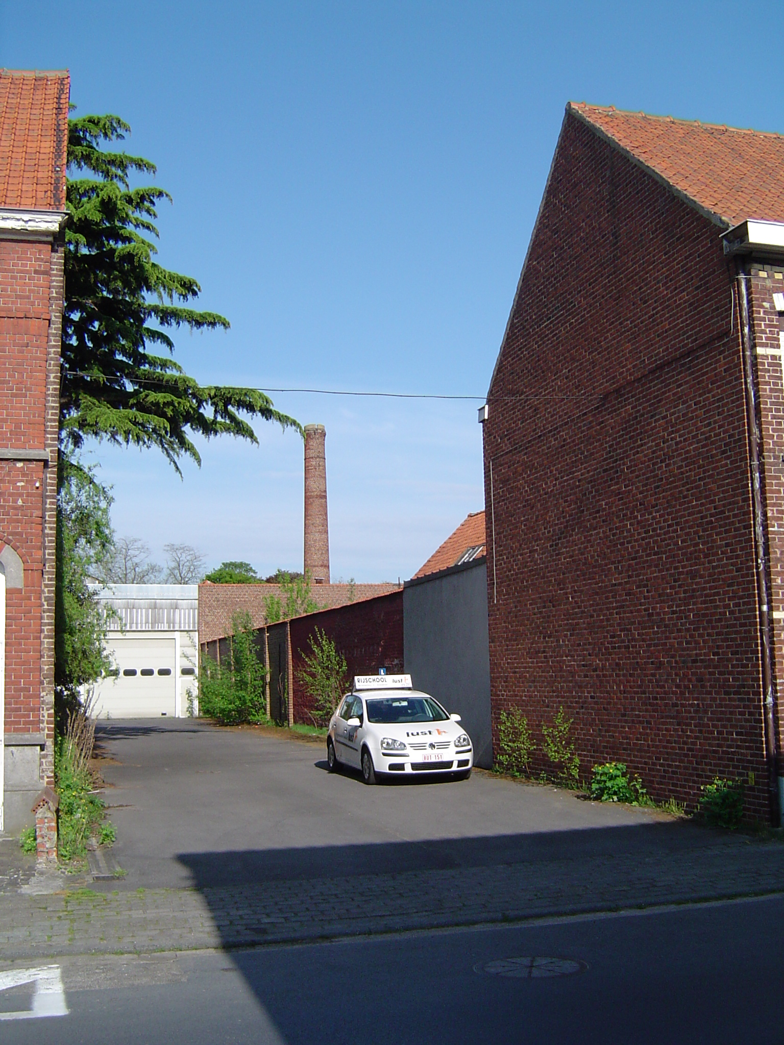 Old commercial properties Verstraete-Verbauwede at Beverenstraat in Deerlijk